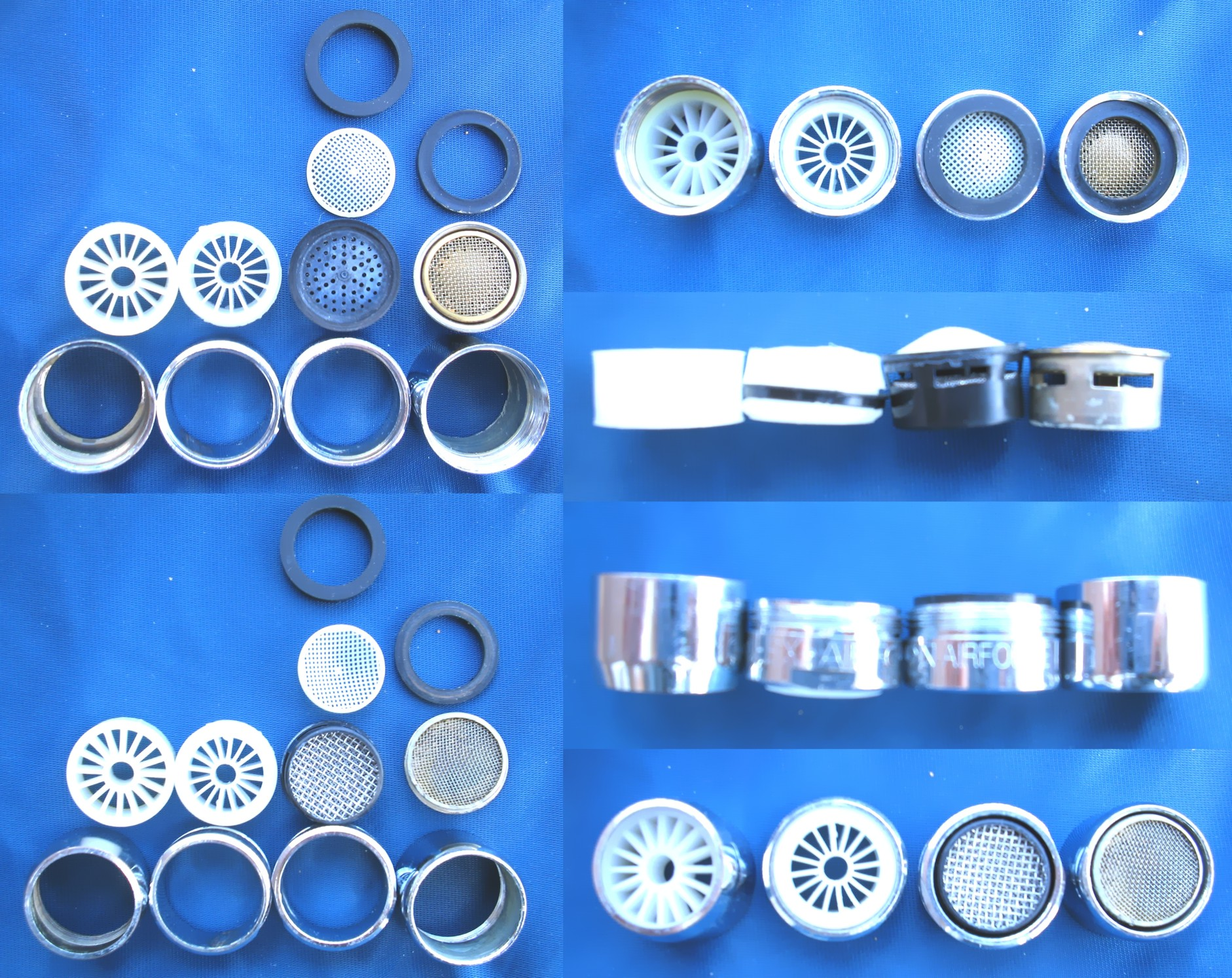 Several Faucet, seen in different angles